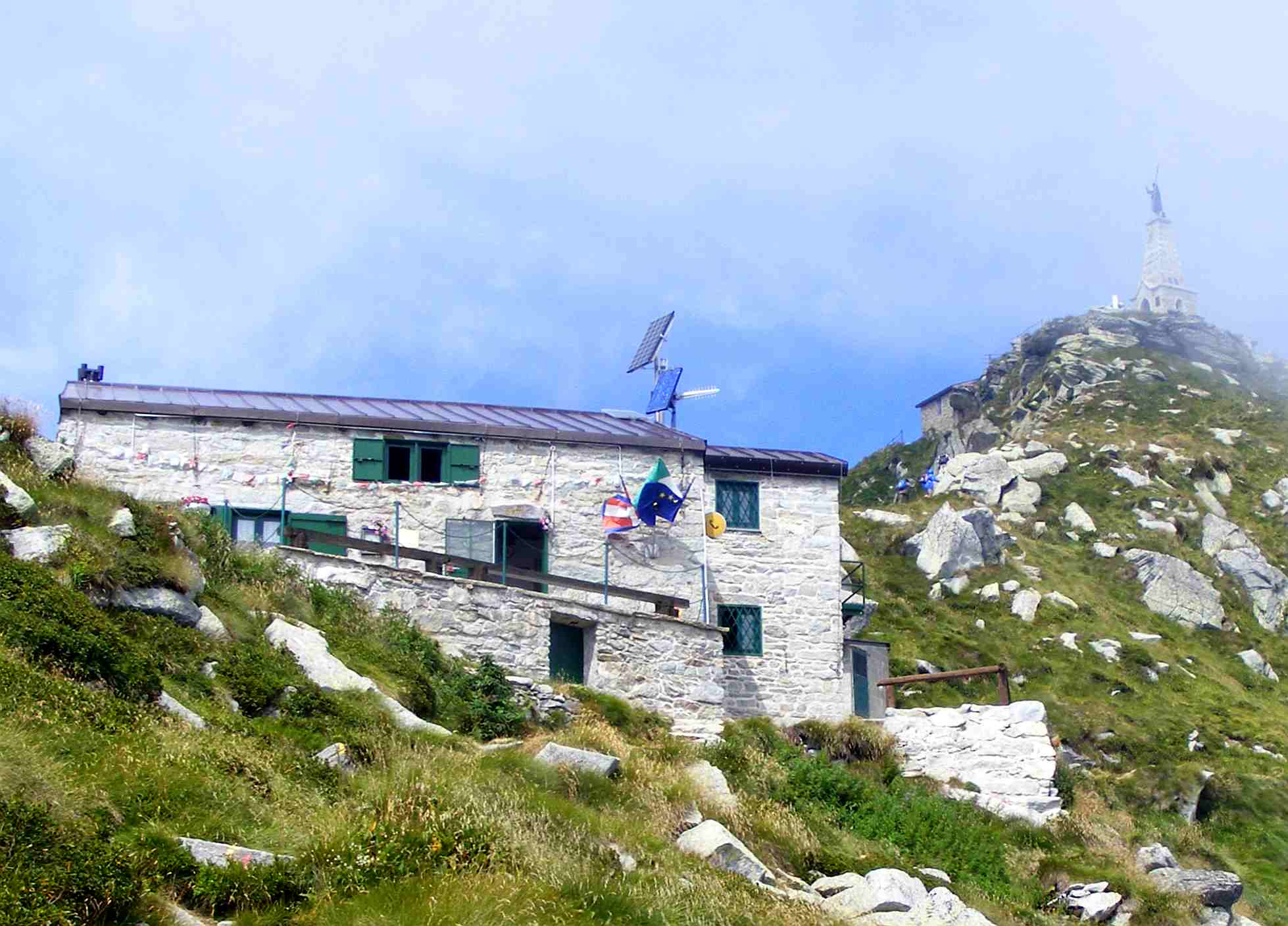 Mombarone alpine hut (Alpi Biellesi, Italy)